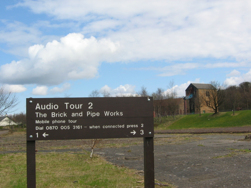 Prestongrange Industrial Heritage Museum